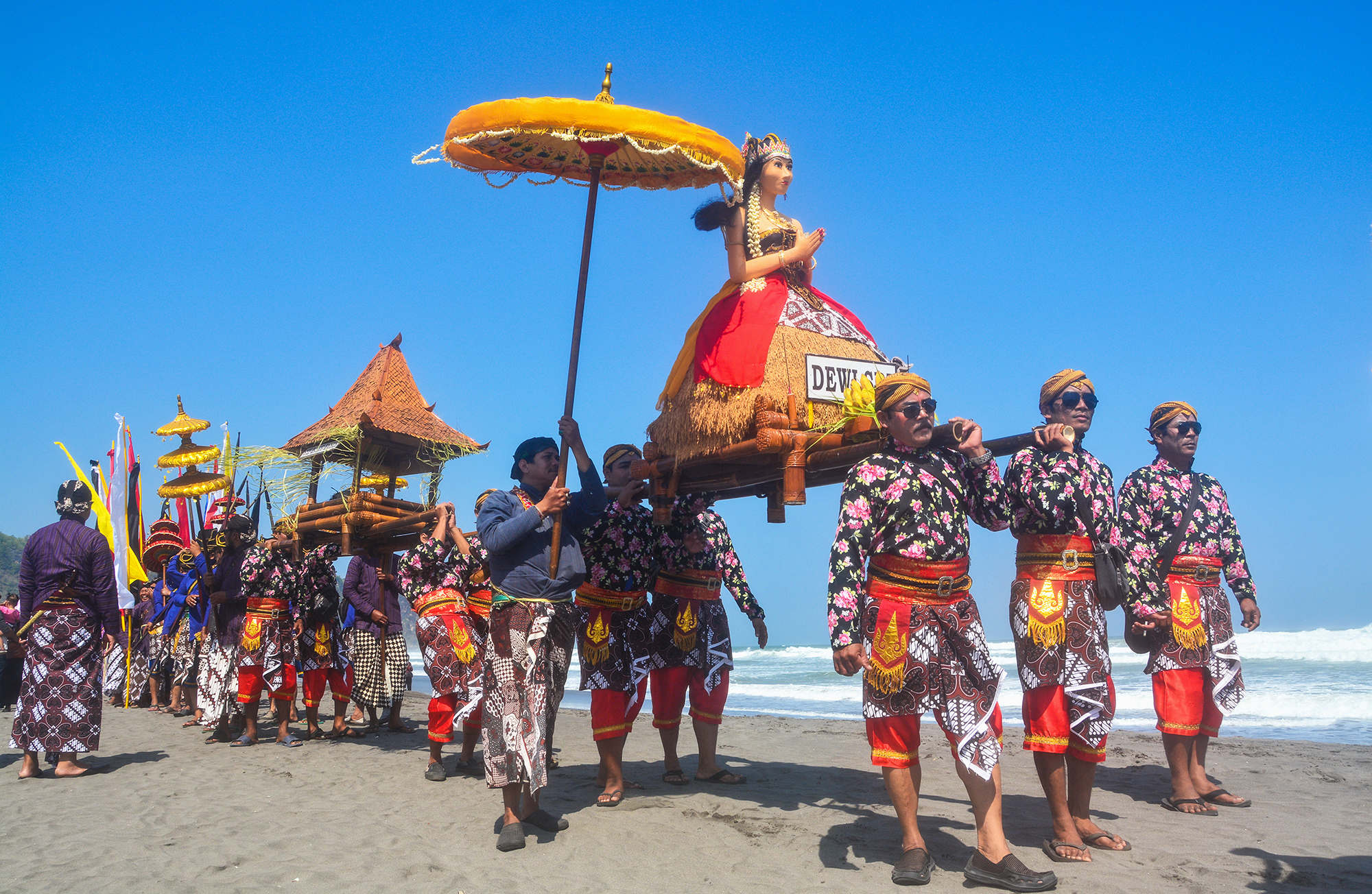 Warga Dusun Mancingan Desa Parangtritis Kecamatan Kretek Kabupaten Bantul melaksanakan Bekti Pertiwi Pisungsung Jaladri, tradisi ini sebagai wujud rasa syukur kepada Tuhan YME.